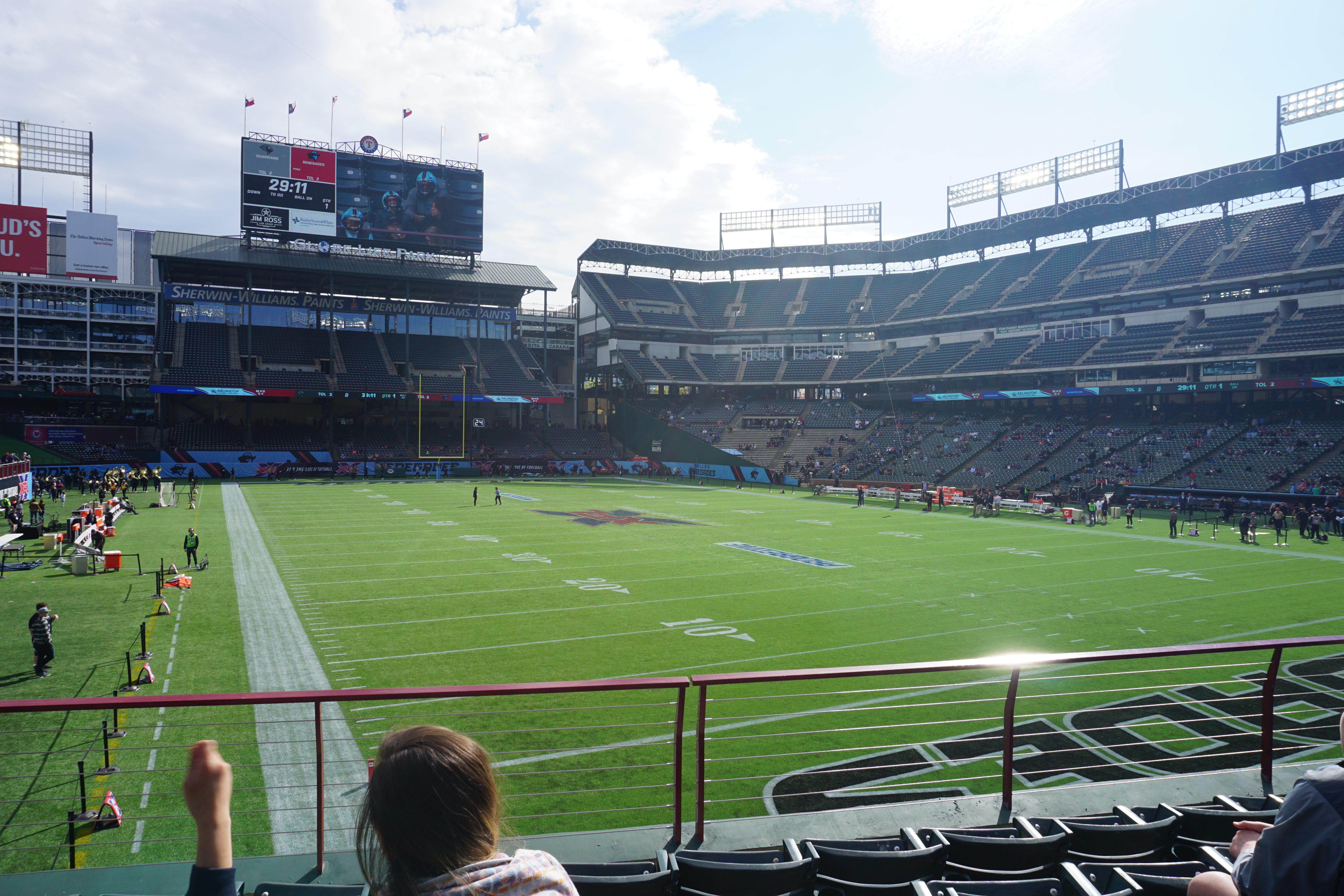 The stadium before the New York Guardians vs. Dallas Renegades game at Globe Life Park in Arlington, Texas (United States). New York won 30–12.